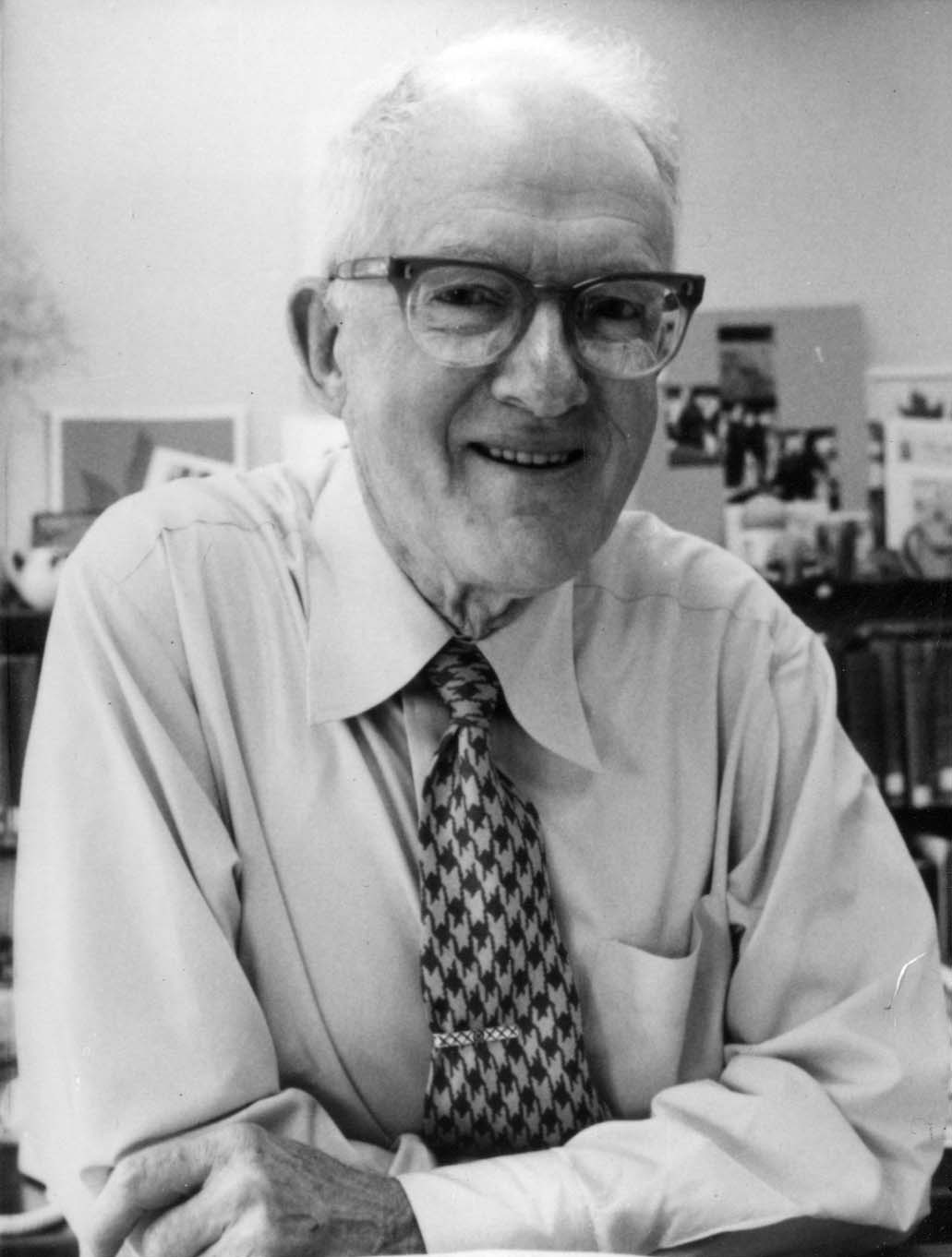 John Thomas Howell (American Botanist) photographed at the California Academy of Sciences